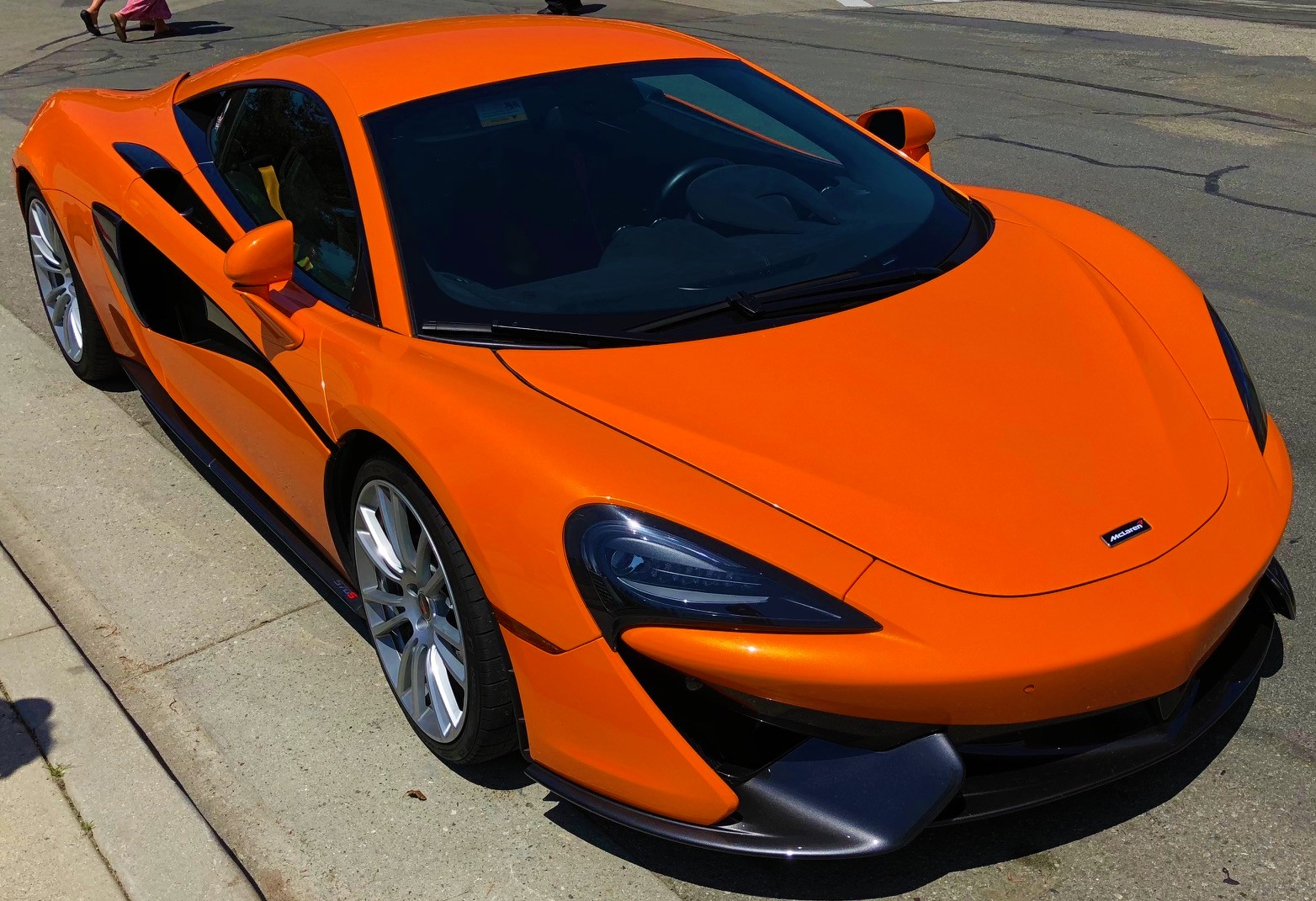 McLaren 570S